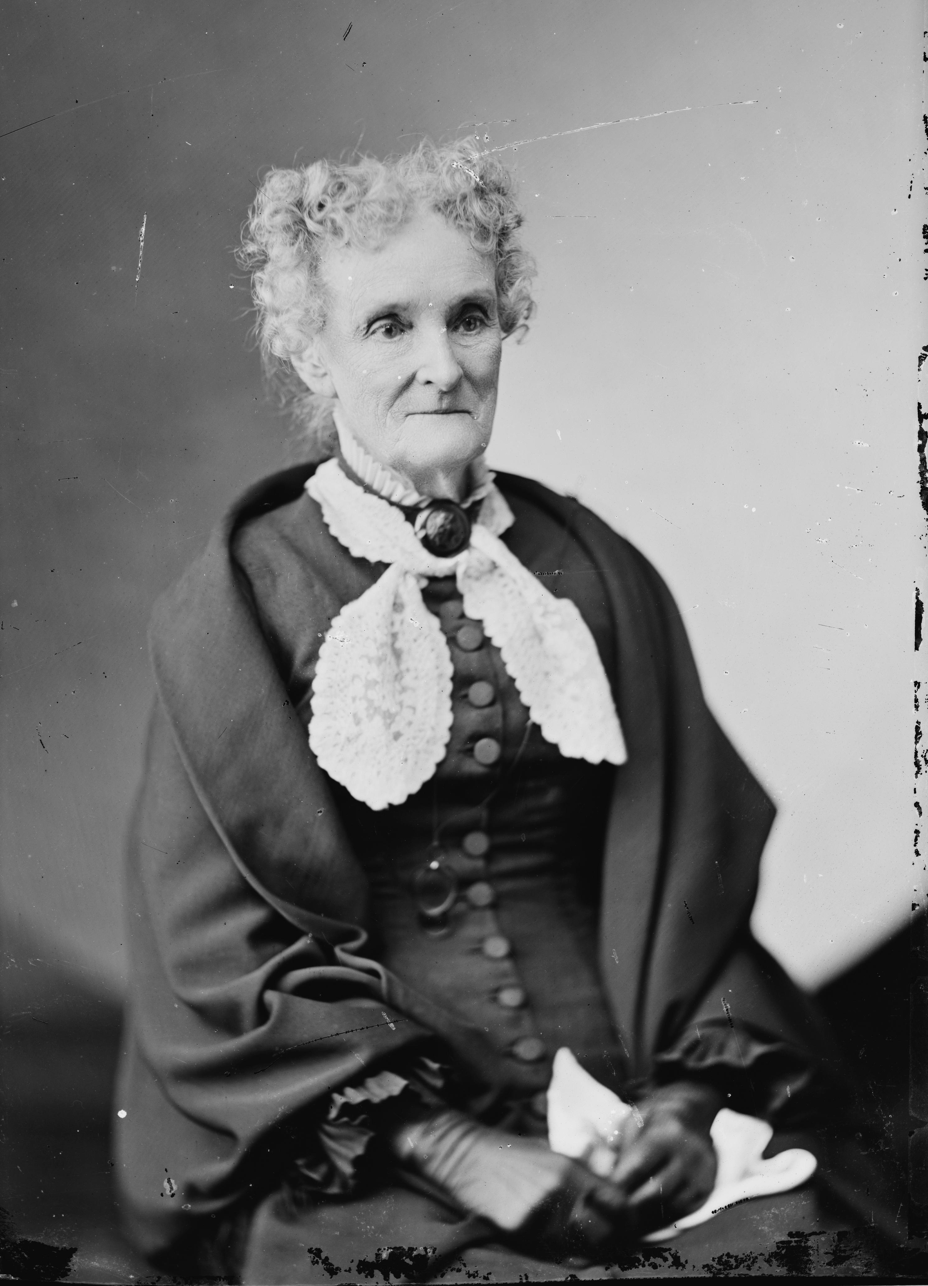 Margaret O'Neill Eaton. Library of Congress description: "Eaton, Mrs. Margaret (Peggy O'Neill), old lady"